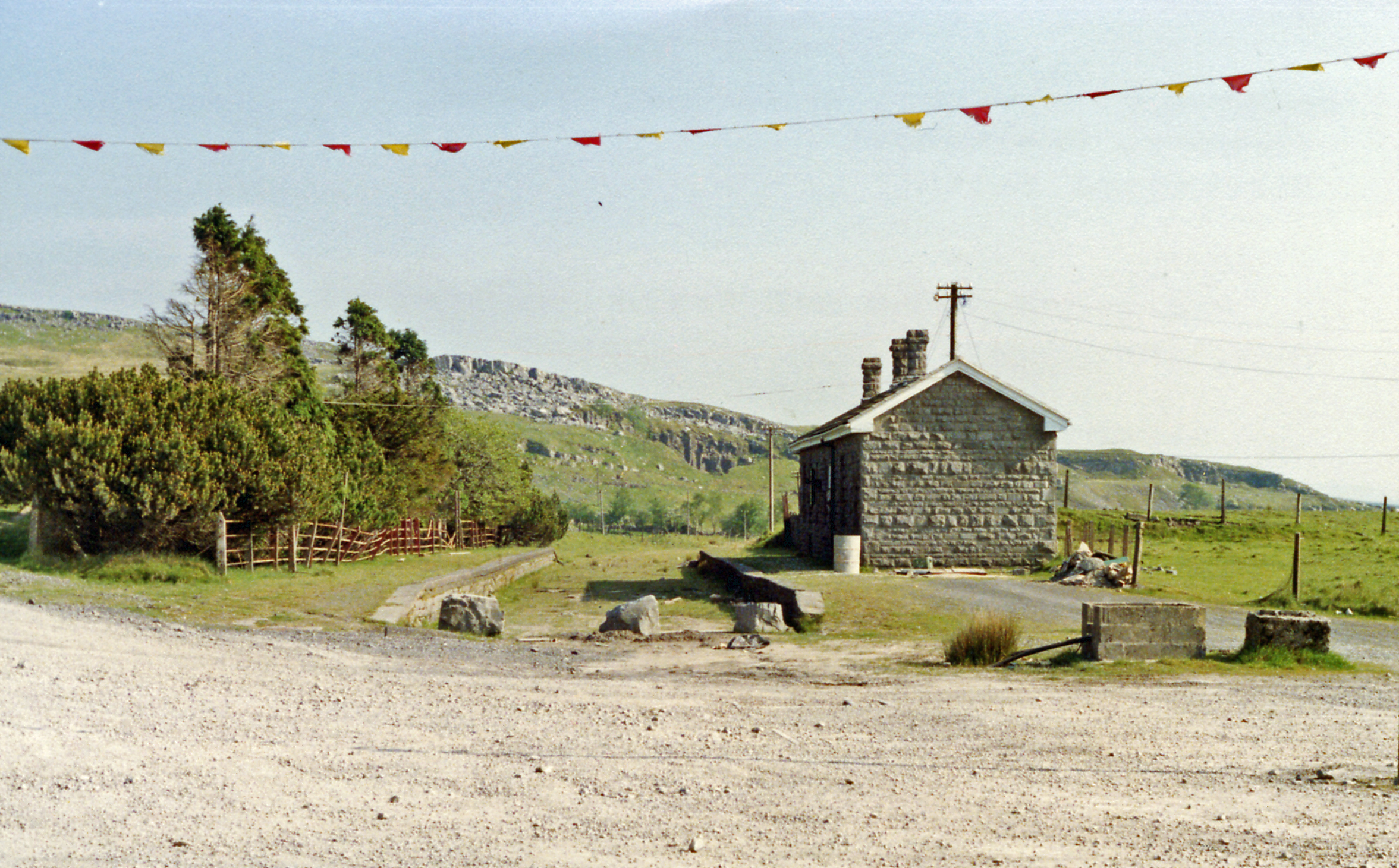 Craig-y-nos (Penyllt) station (remains), 1990. View southward, towards Neath: ex-GWR (Neath & Brecon) line up the Dulais and upper Tawe valleys from Neath (Riverside) to a summit here under the Fforest Fawr, then down the Glyn Tarell to Brecon, closed to passengers 15/10/62, to goods (from Colbren Junction) 7/10/63.